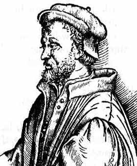 Scratch by himself